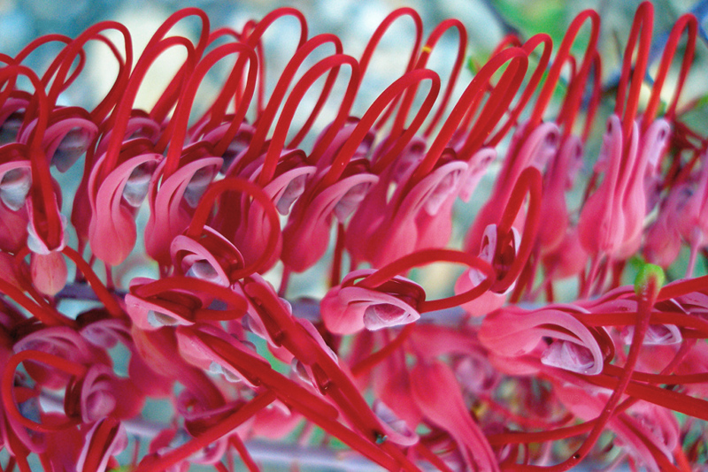 Kakadu National Park, Australia, red and pink looped wildflower of a Grevillea species